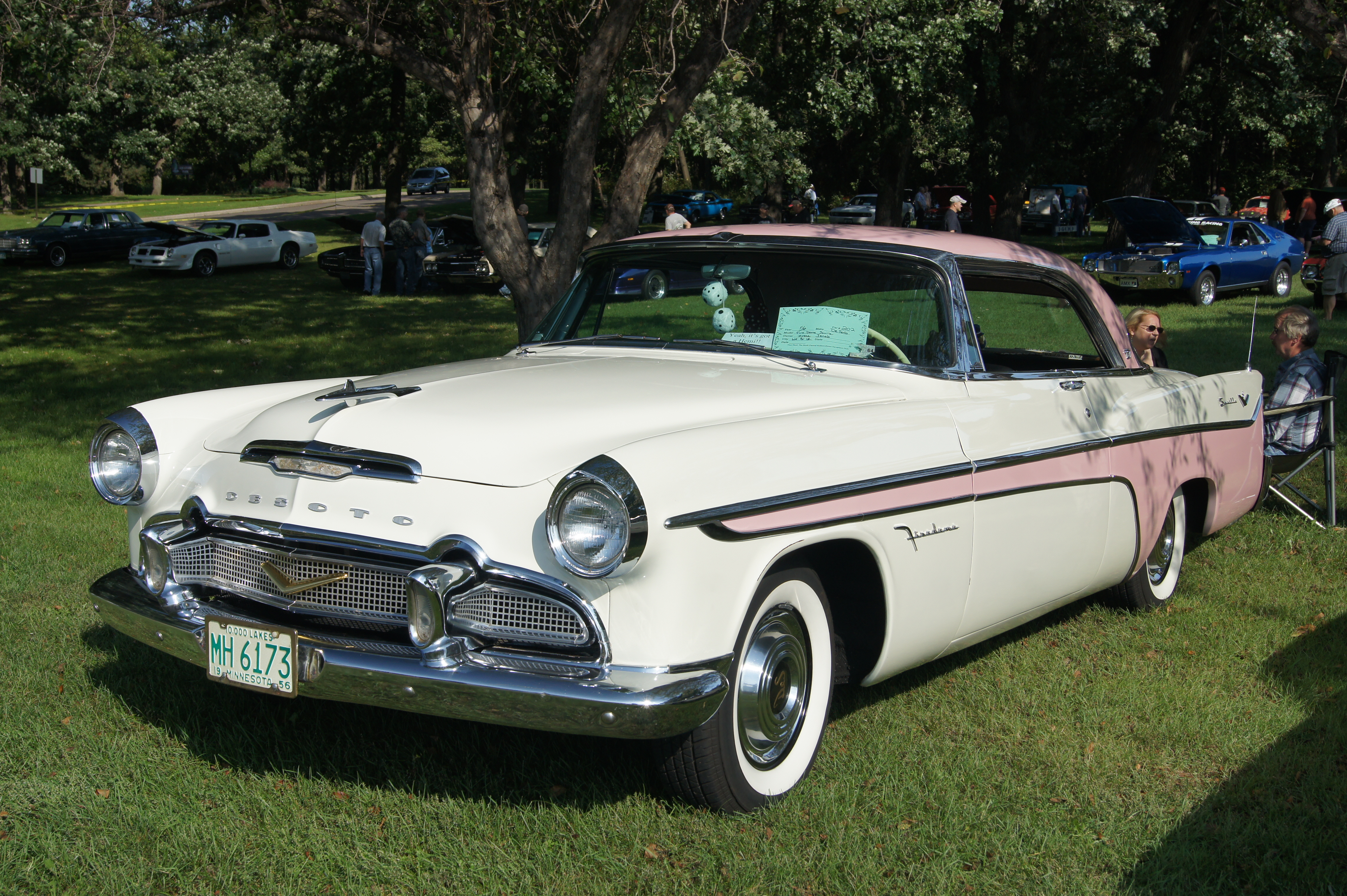 47th Annual Twin Cities Collectors Car Show & Swap Meet August 2014 Aquatore Park Blaine, Minnesota More car pictures separated by make by clicking on this Flickr link